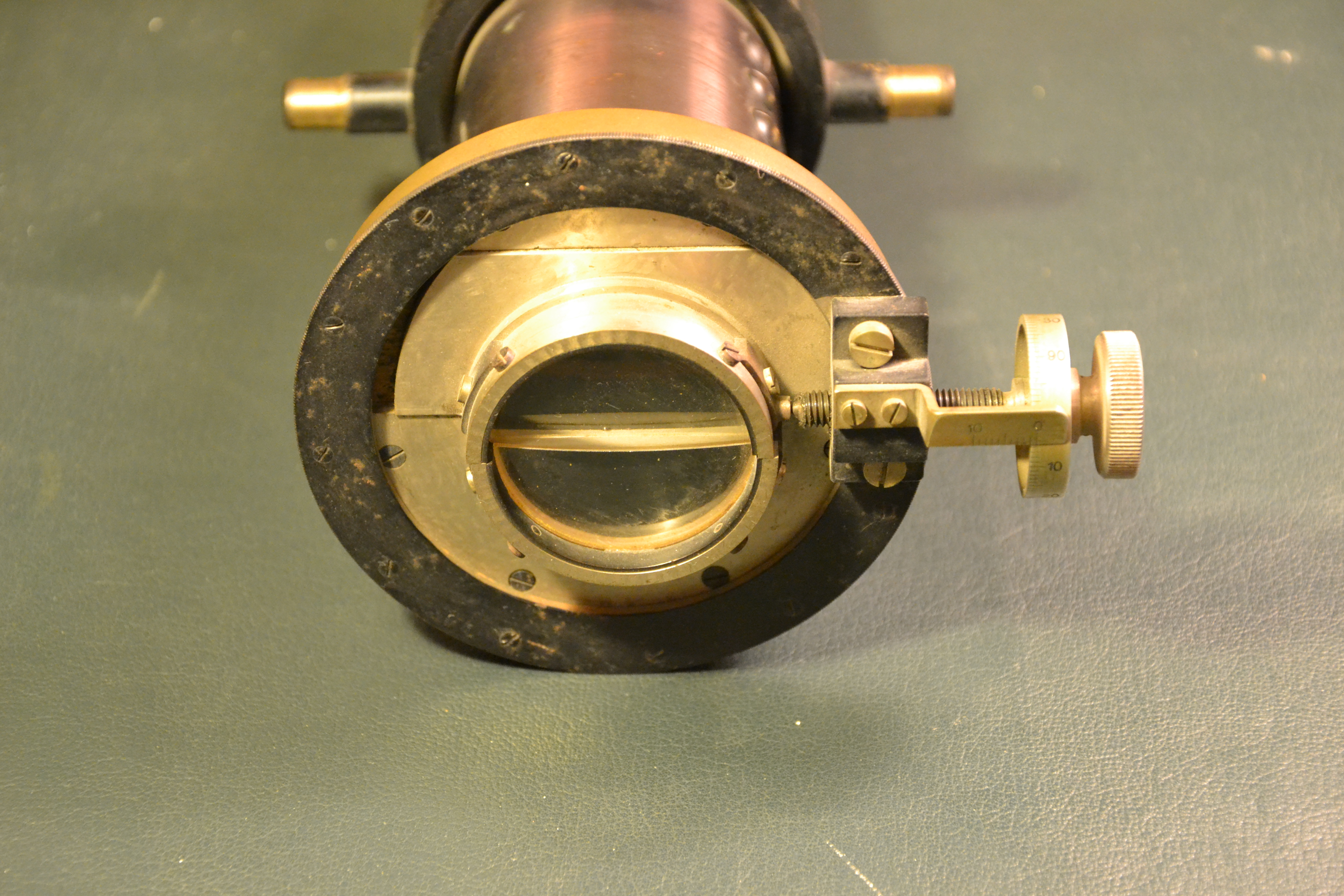 Objective lens of a heliometer by Carl Bamberg, Berlin-Friedenau, around 1880/90. Lens diameter about 4.2 cm. (University Observatory Vienna)